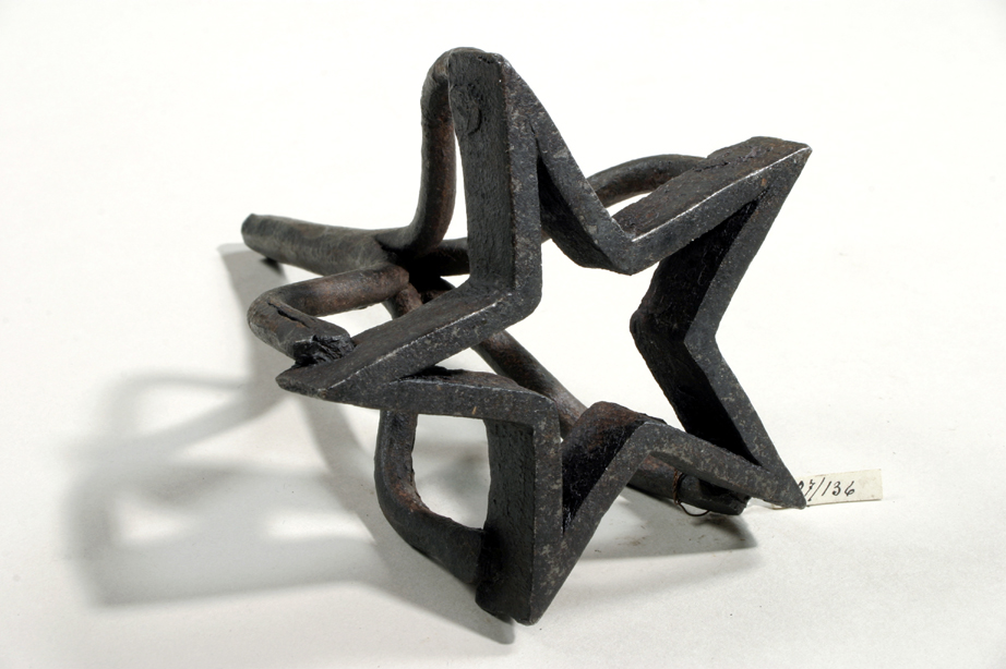 Note: For documentary purposes the original description has been retained. Factual corrections and alternative descriptions are encouraged separately from the original description.Brännjärn Hingstdepå, helbild - LRK 24486 Nyckelord: Brännmärkning, Boskap, Märke, Branding, Stjärna, Symboler, Föremålsbild, Brännjärn